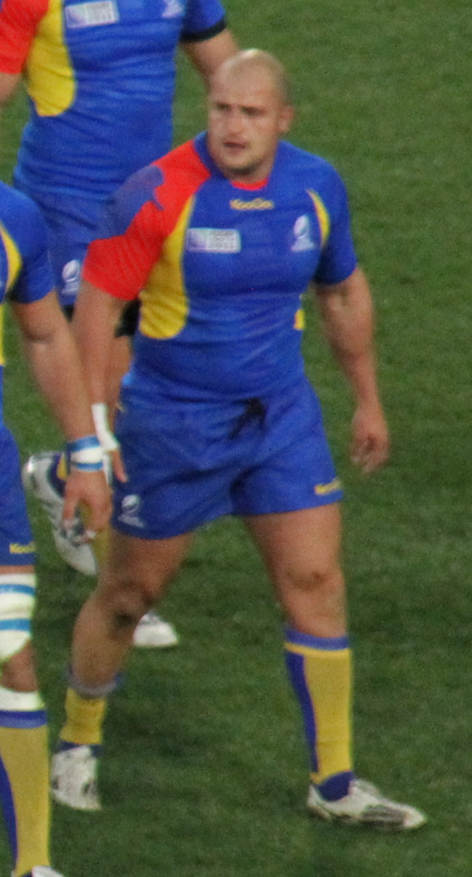 Romanian rugby union player Silviu Florea during 2011 Rugby World Cup match against England.